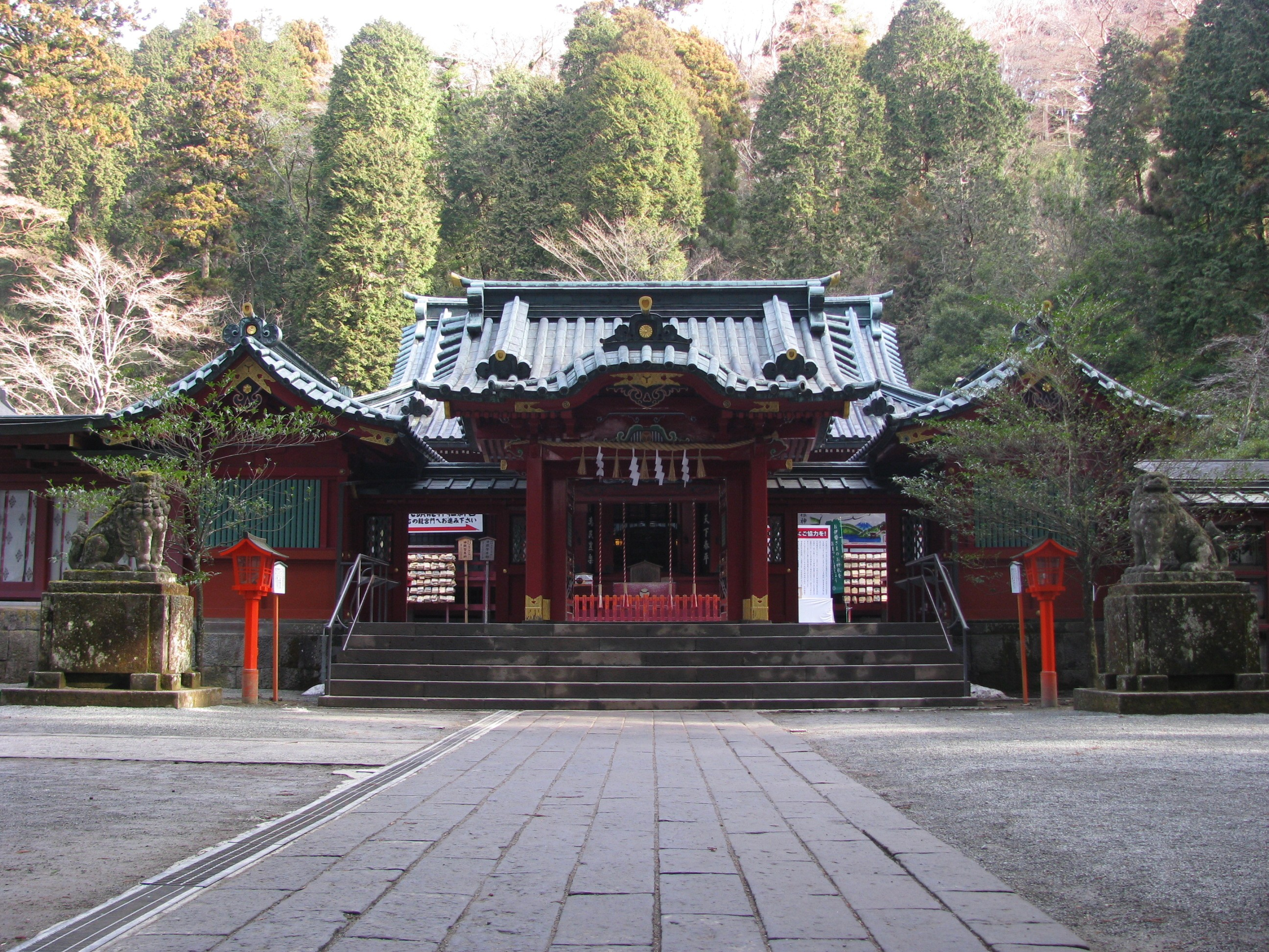 The Hakone-jinja. This place is Hakone, Ashigarashimo District, Kanagawa Prefecture, Japan.